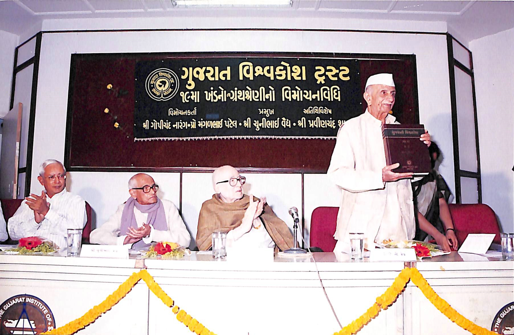 Inauguration of Gujarati Vishwakosh Vol. 19; (from left) Pravinchandra Gambhirdas, Chunibhai Vaidya, Shrenik Kasturbhai and P. C. Vaidya